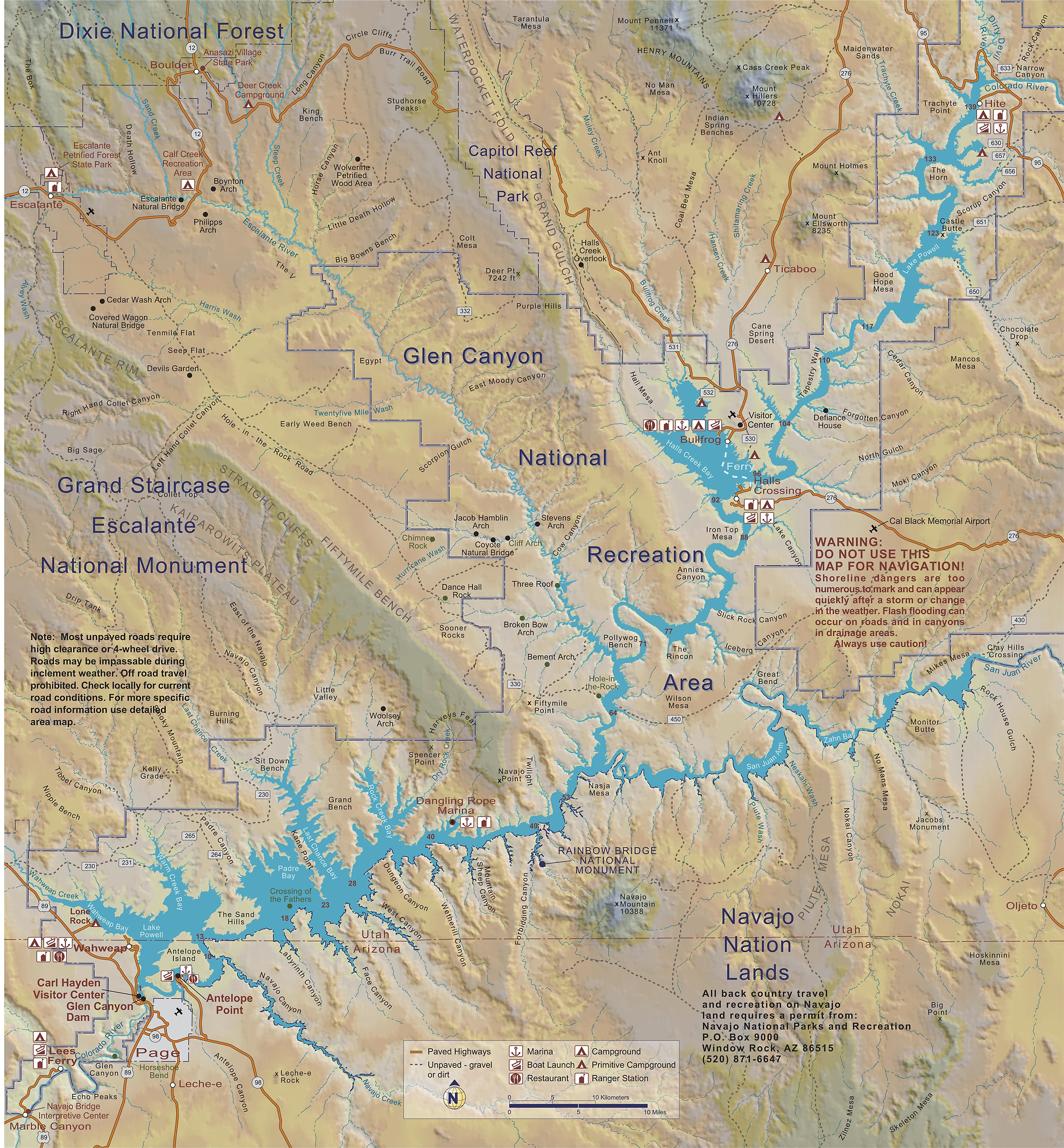 Map of Lake Powell, Glen Canyon National Recreation Area, and surrounding country in Arizona and Utah.